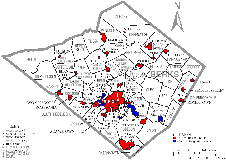 Map of Berks County, Pennsylvania, United States with township and municipal boundaries